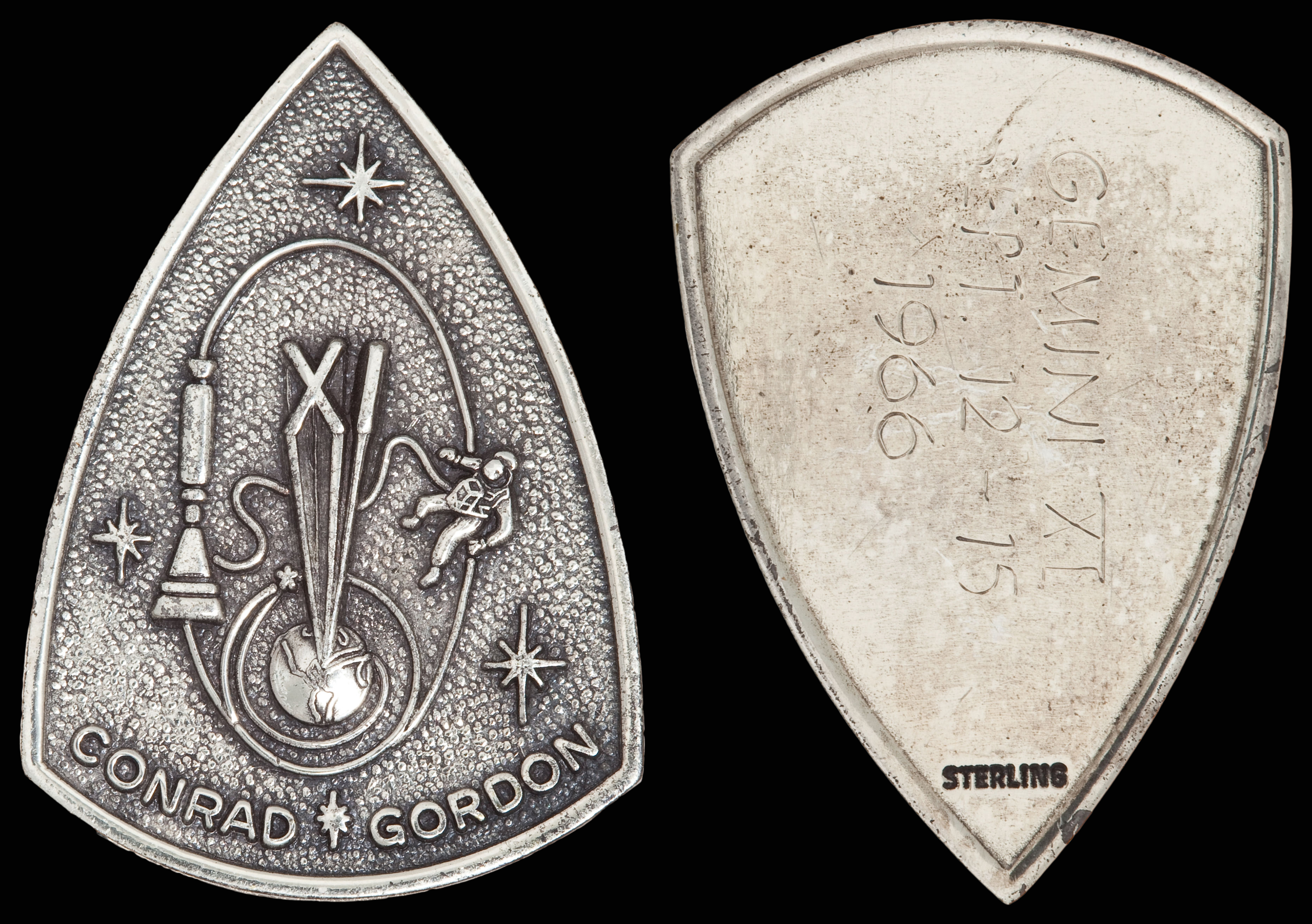 Gemini 11 Flown Sterling Silver Fliteline Medallion(6052-41050)